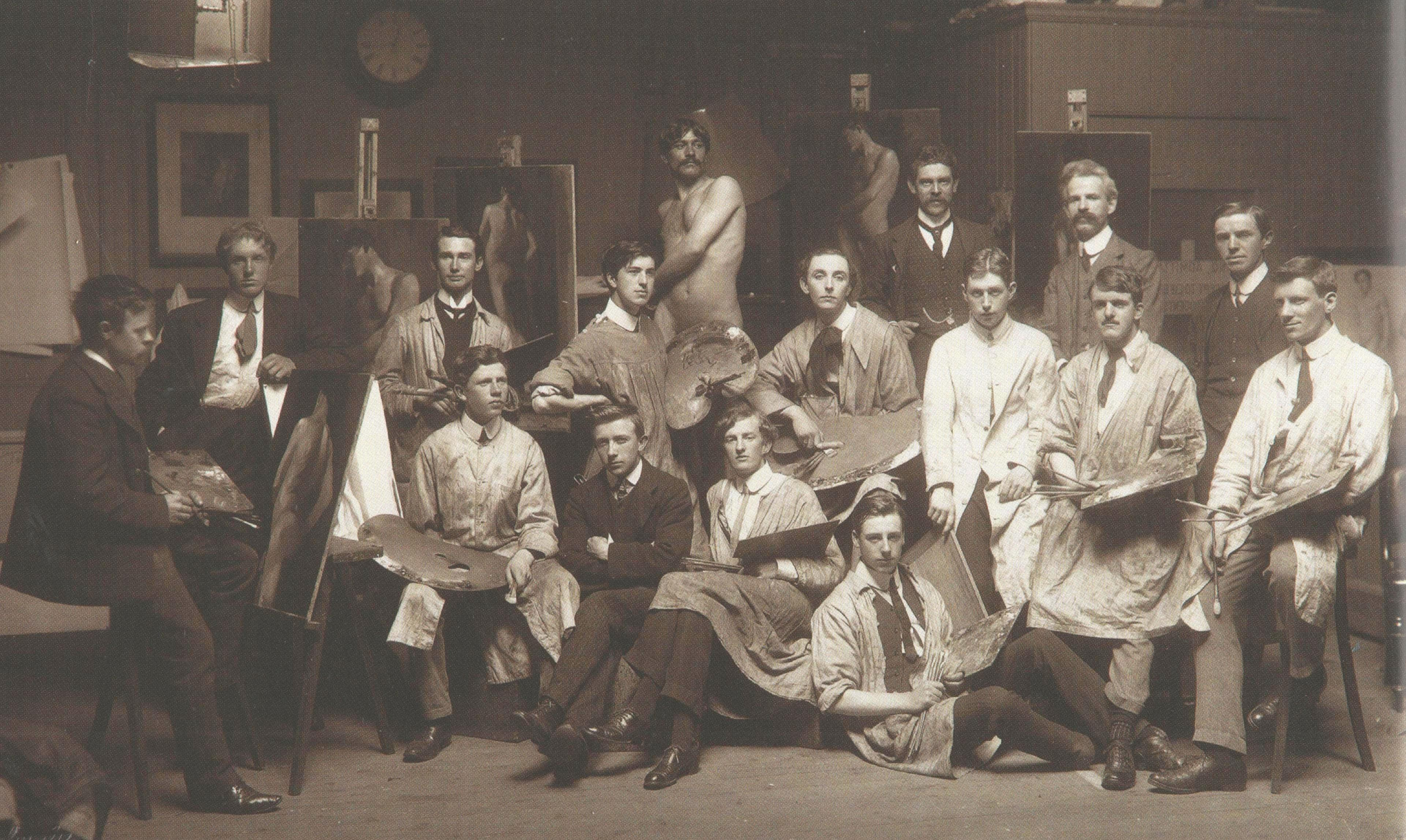 This is a photograph of the students on the Life Class course at the Edinburgh College of Art (1908).